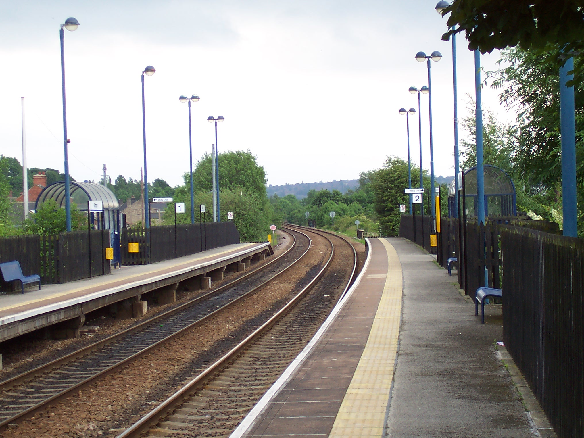 Photograph of Darton Railway Station taken by myself on 16 June 2005.